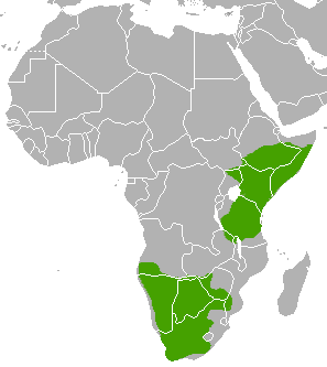 Bat-eared Fox range